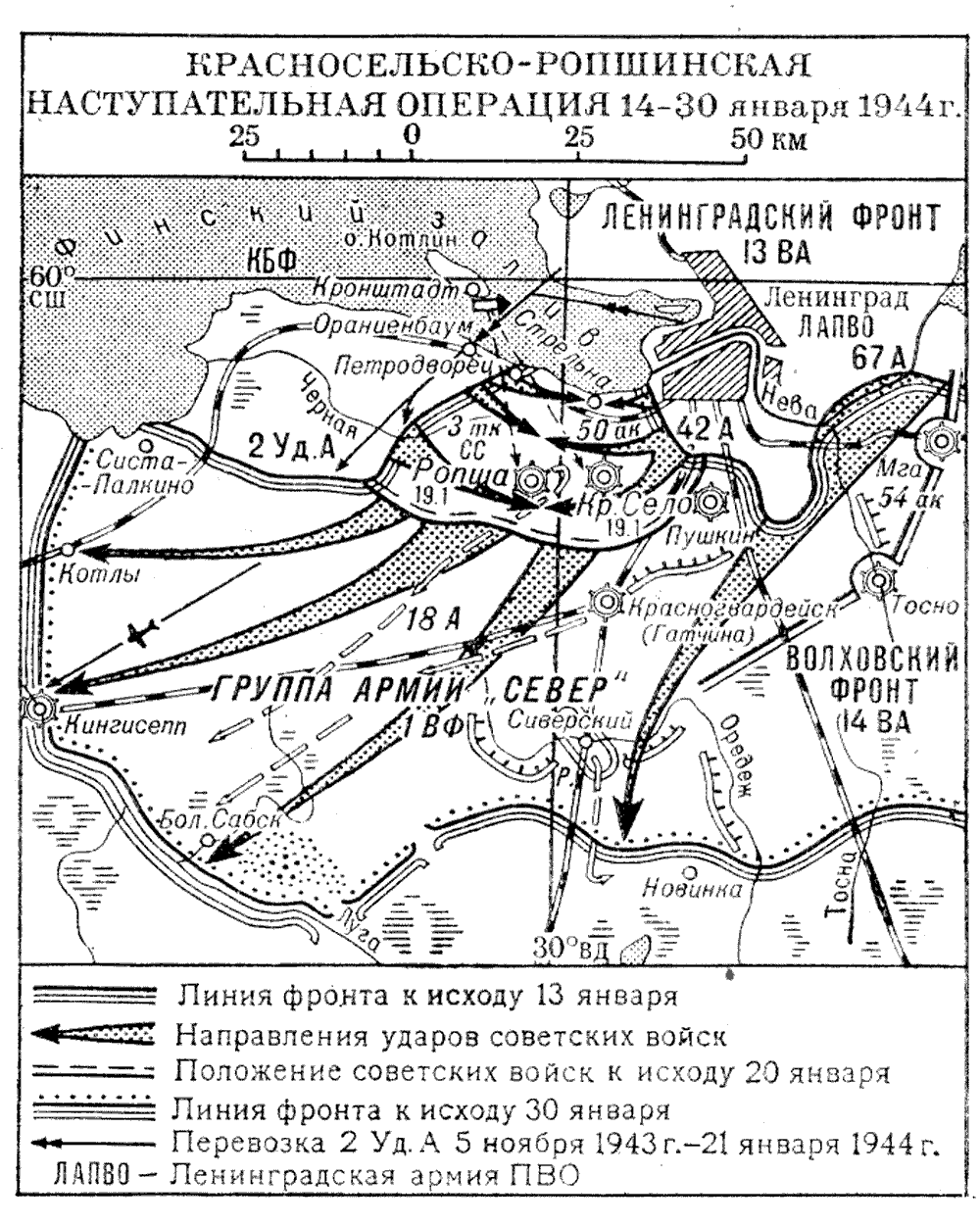 Operational map of Krasnoye Selo-Ropsha Offensive